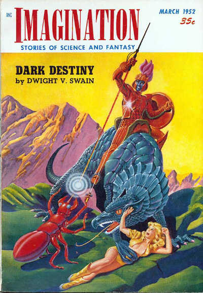 Cover of Imagination, March 1952